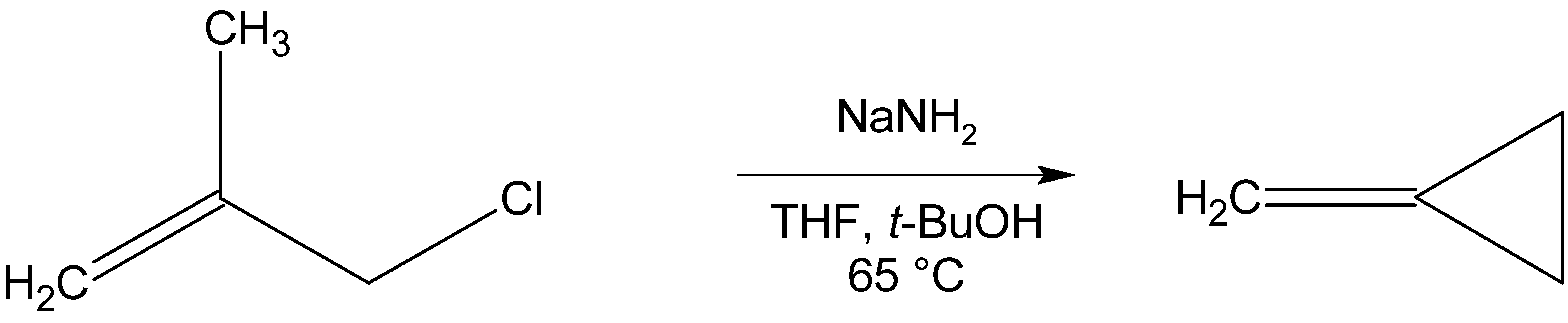 Description: Preparation of methylenecyclopropane. For details see Salaun, J. R.; Champion, J.; Conia, J. M. "Cyclobutanone from methylenecyclopropane via oxaspiropentane". Org. Synth. 57:36; Coll. Vol. 6:320. Author, date of creation: selfmade by Physchim62 on 2005-11-27. Source: user-created image Copyright: GNU Free Documentation License. (GFDL) Comments: high-resolution b/w PNG; ChemSketch / Paint shop.